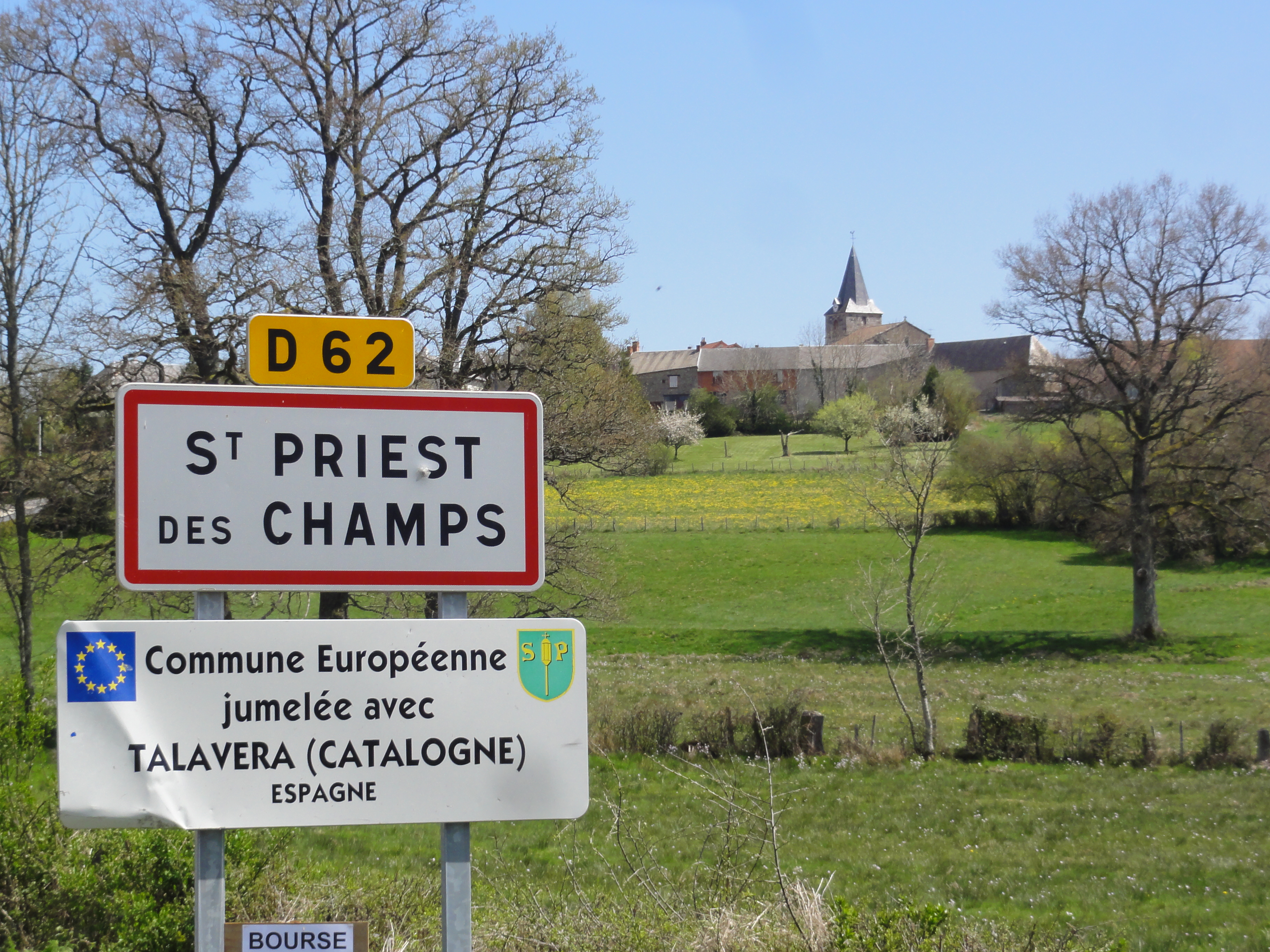 Saint-Priest-des-Champs (Puy-de-Dôme) city limit sign